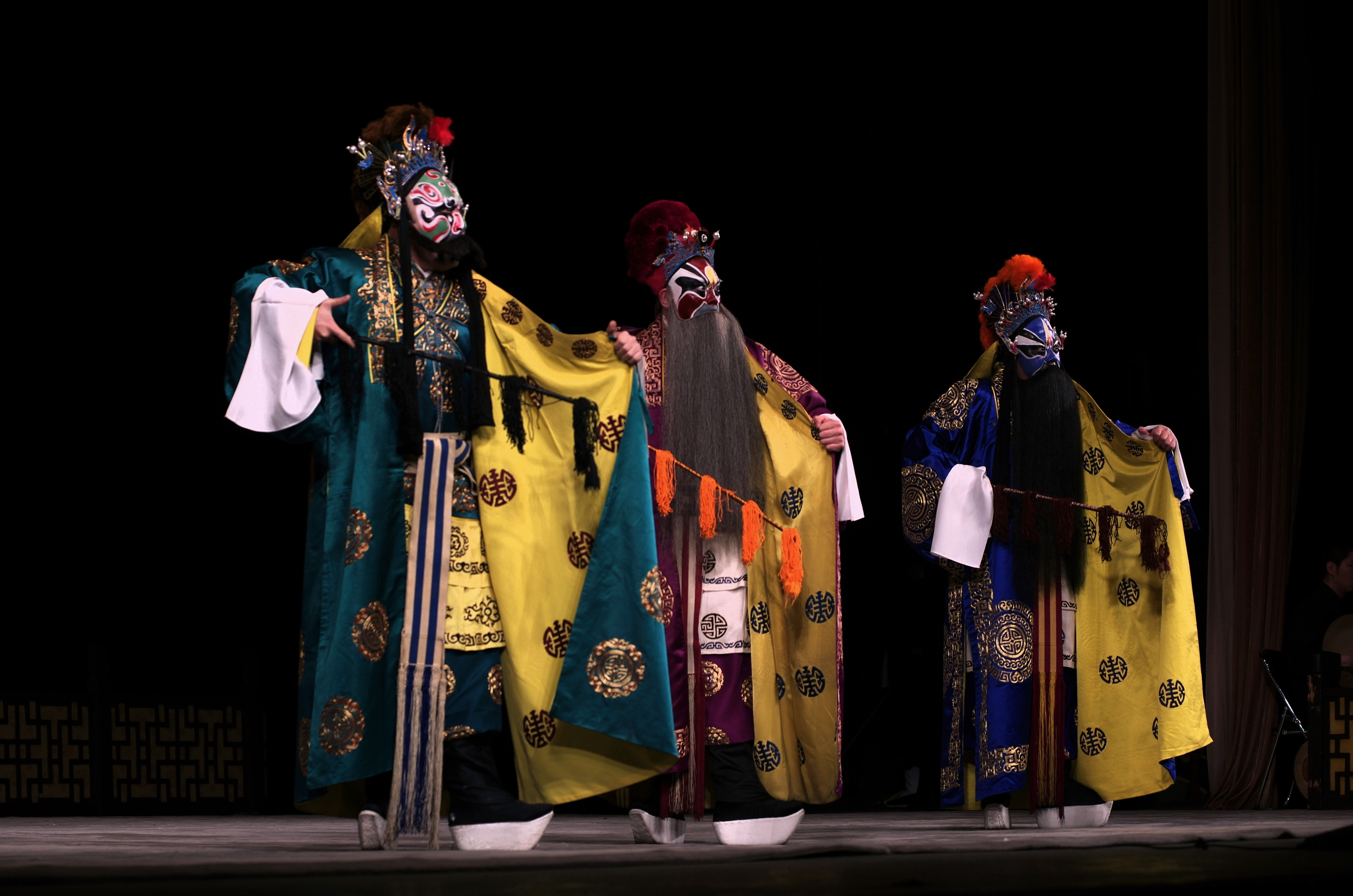 a 2014 Peking opera performance of an episode from the novel The Seven Heroes and Five Gallants